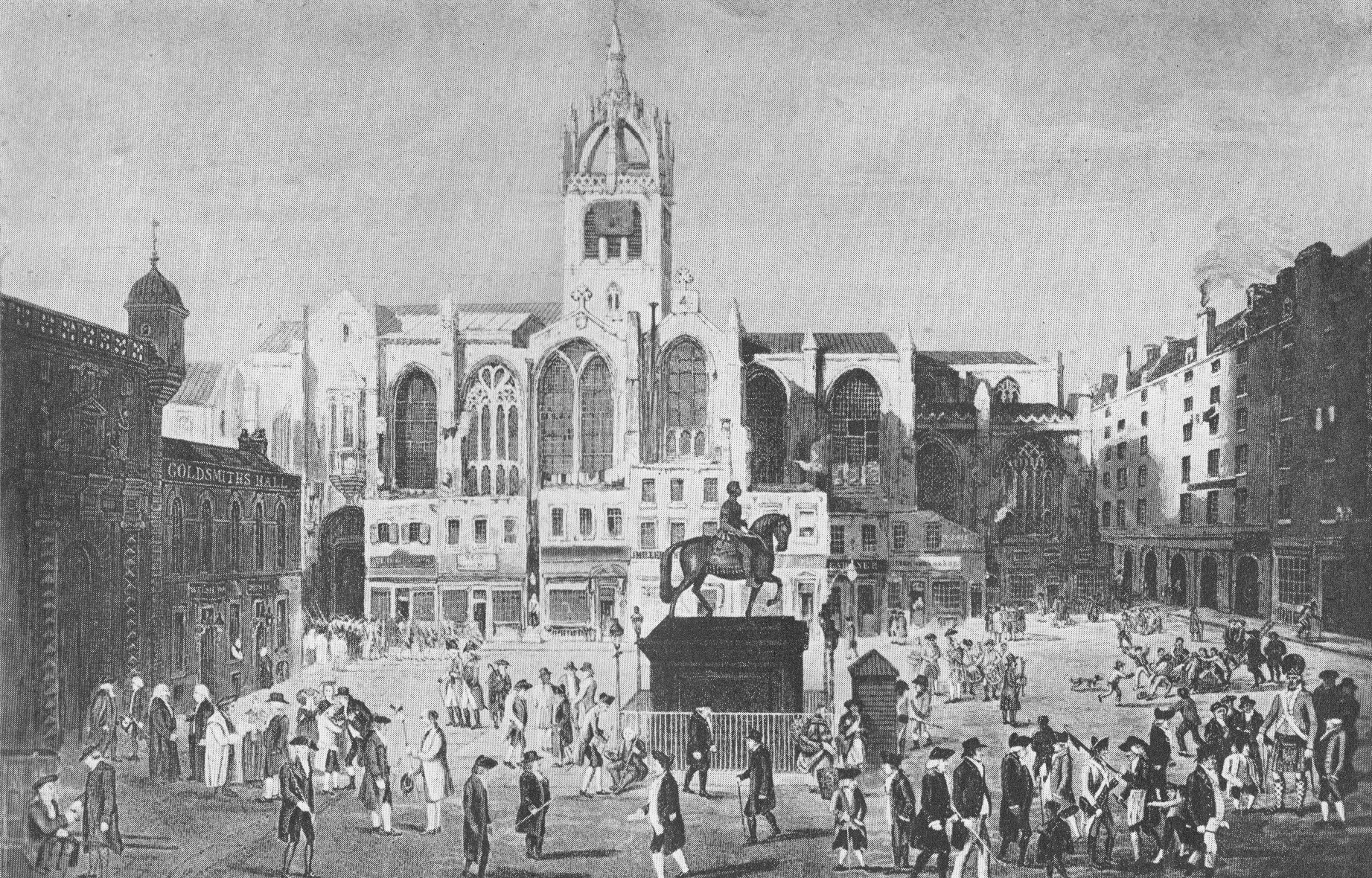 "The Parliament Close and Public Characters Fifty Years Since"